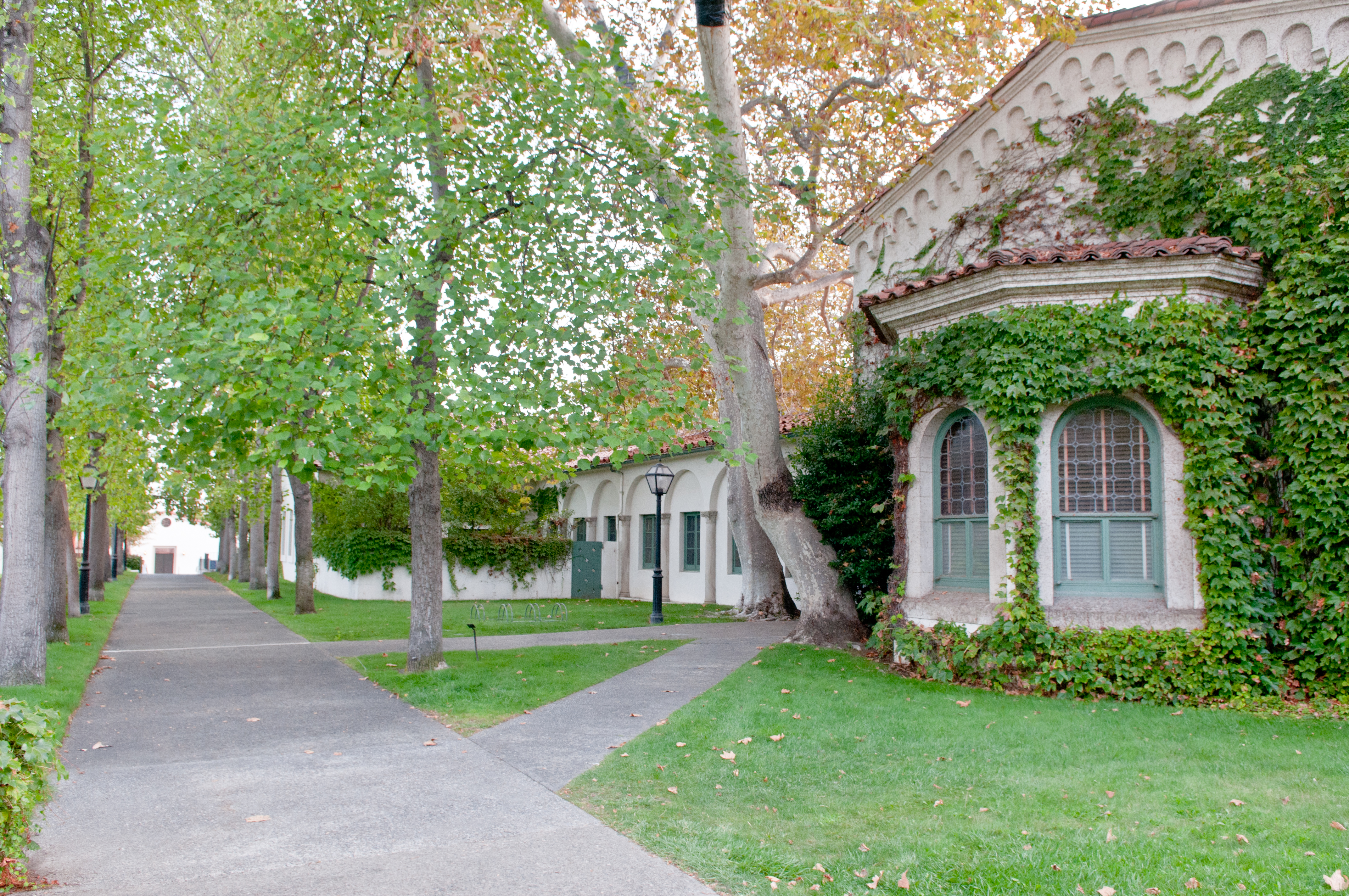 Scripps College for Women Side view of Balch Building